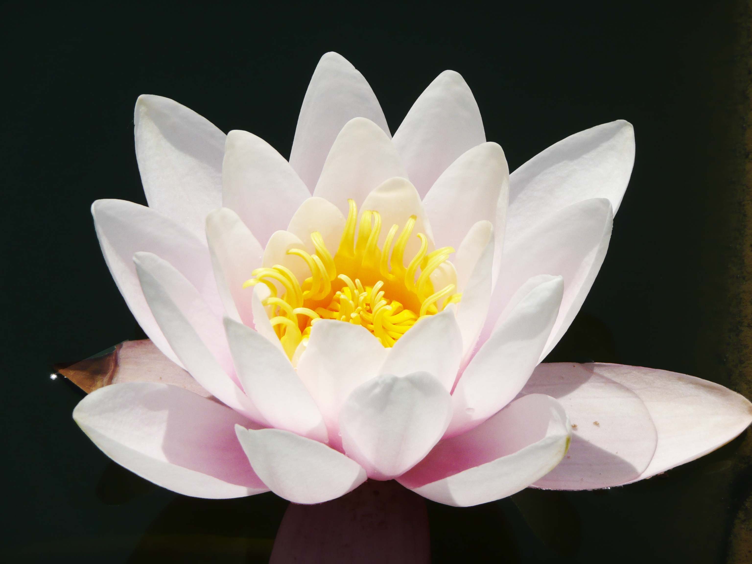 Photographs from TEMA, Nezahat Gökyiğit Park, Istanbul Location encoded in EXIF